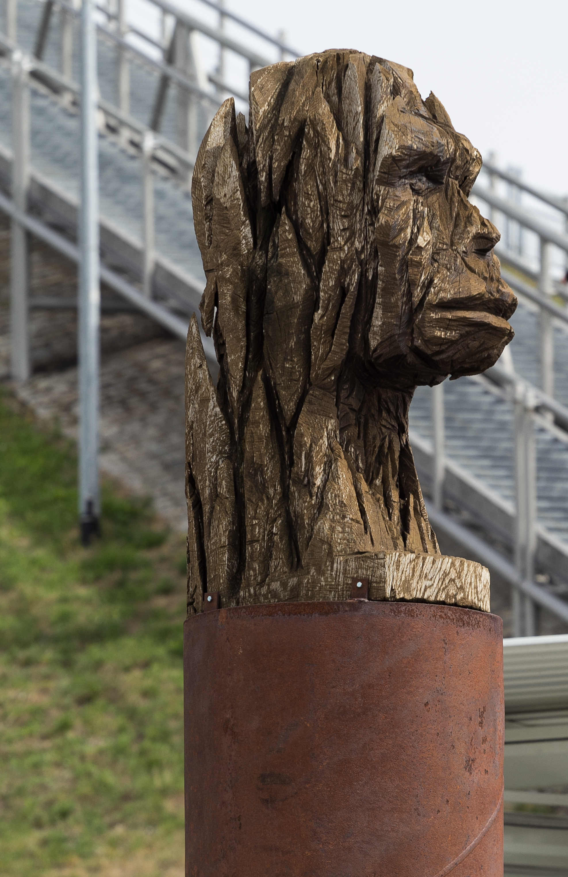 Sculpture 2 (out of three) of the arrangement "in flux" (2002) from the german sculptor Andreas Kuhnlein at the visitors park of the Munich Airport. He made his sculptures with a chain saw out of a piece from a tree.